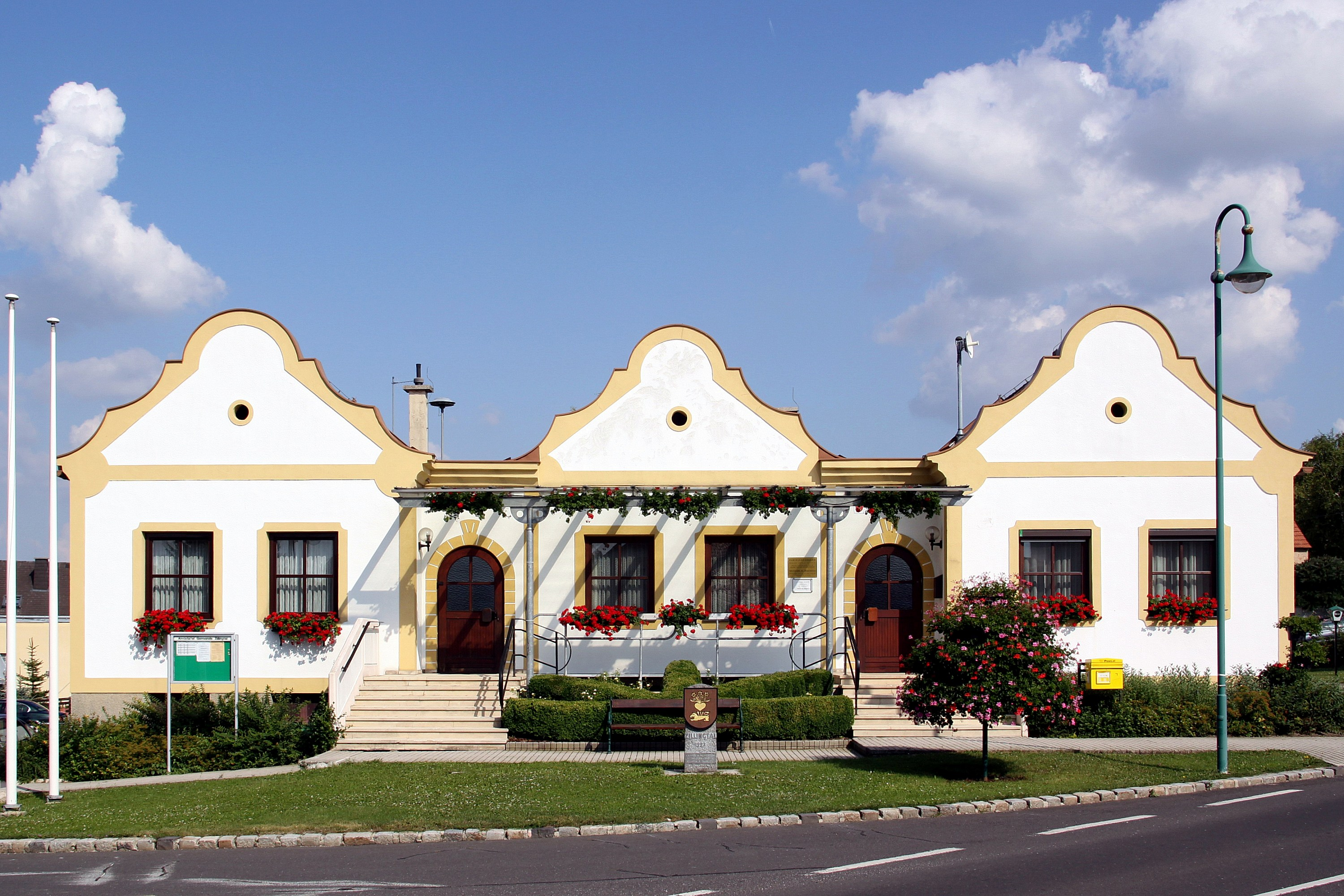 Municipal office - Zillingtal Object location47° 48′ 53.92″ N, 16° 24′ 32.58″ E